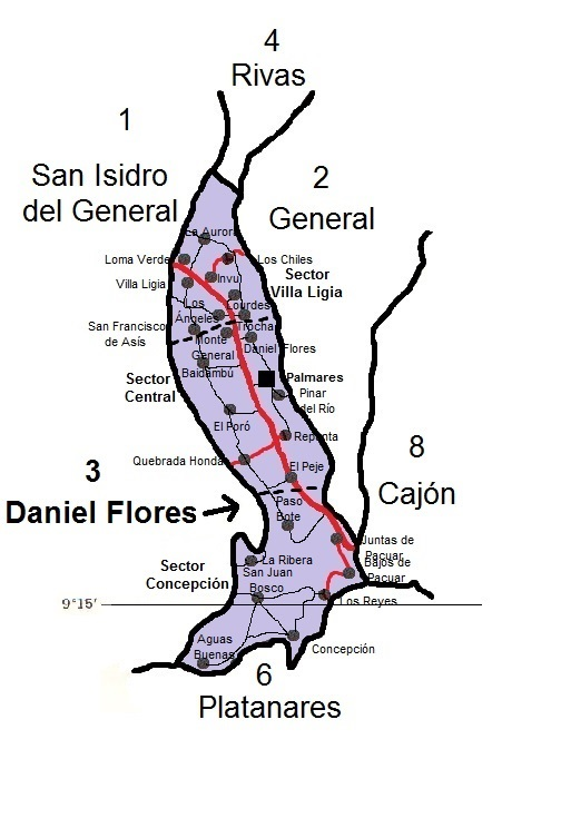 Daniel Flores´ map